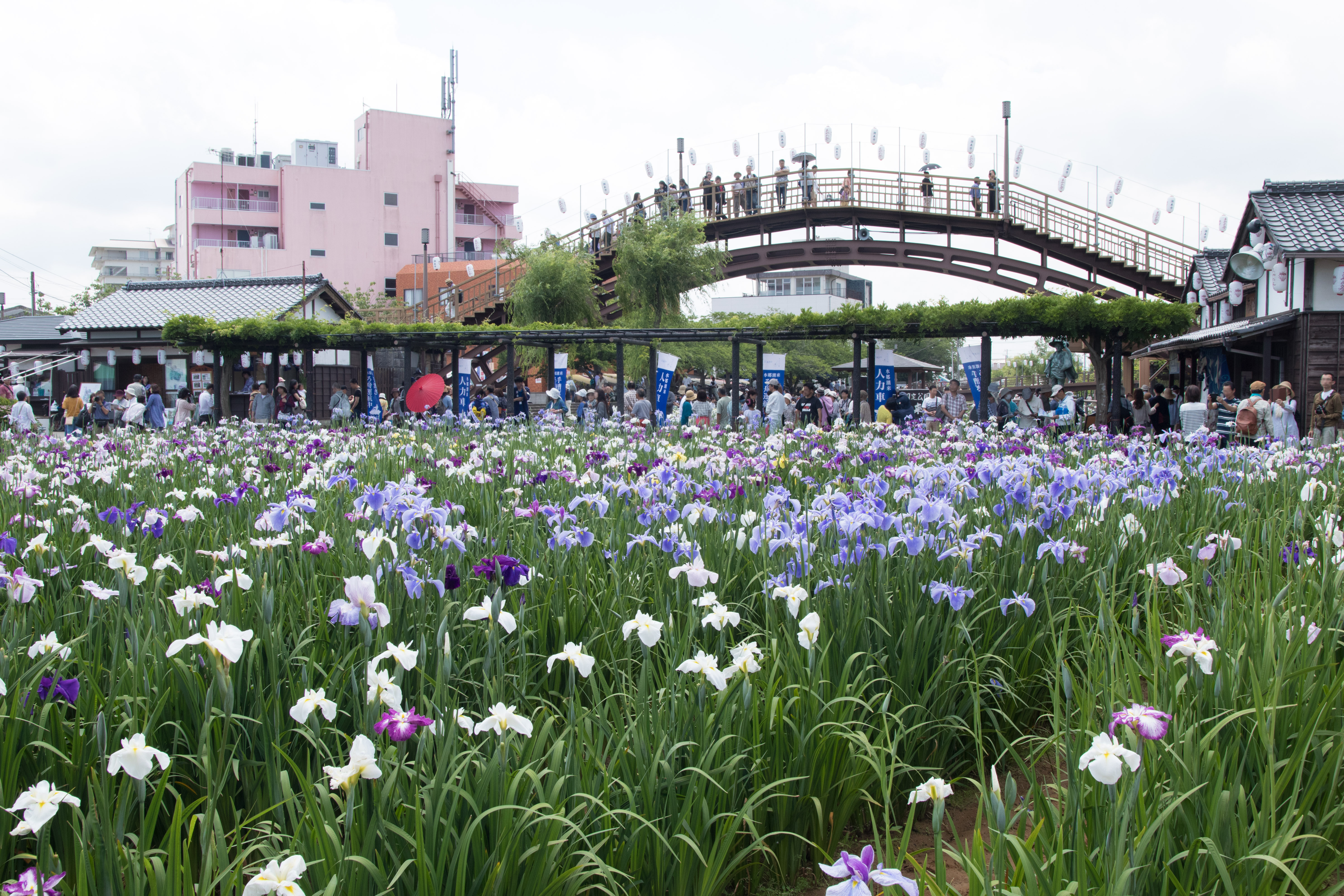 Suigo Itako Iris Garden(Suigo Itako Ayame-en), Itako City, Ibaraki Pref., Japan